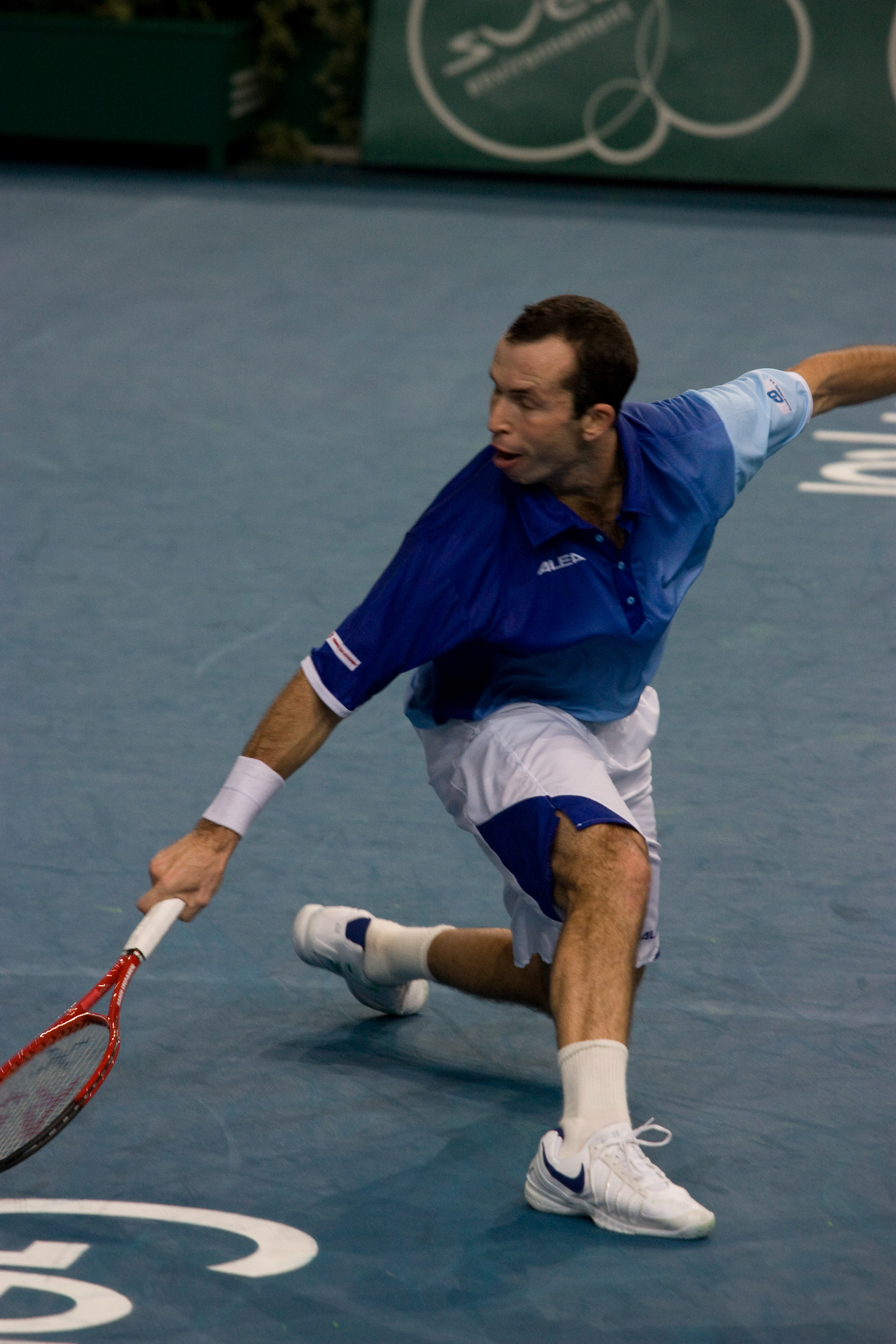 Radek Stepanek against Jo-Wilfried Tsonga at the 2008 BNP Paribas Masters